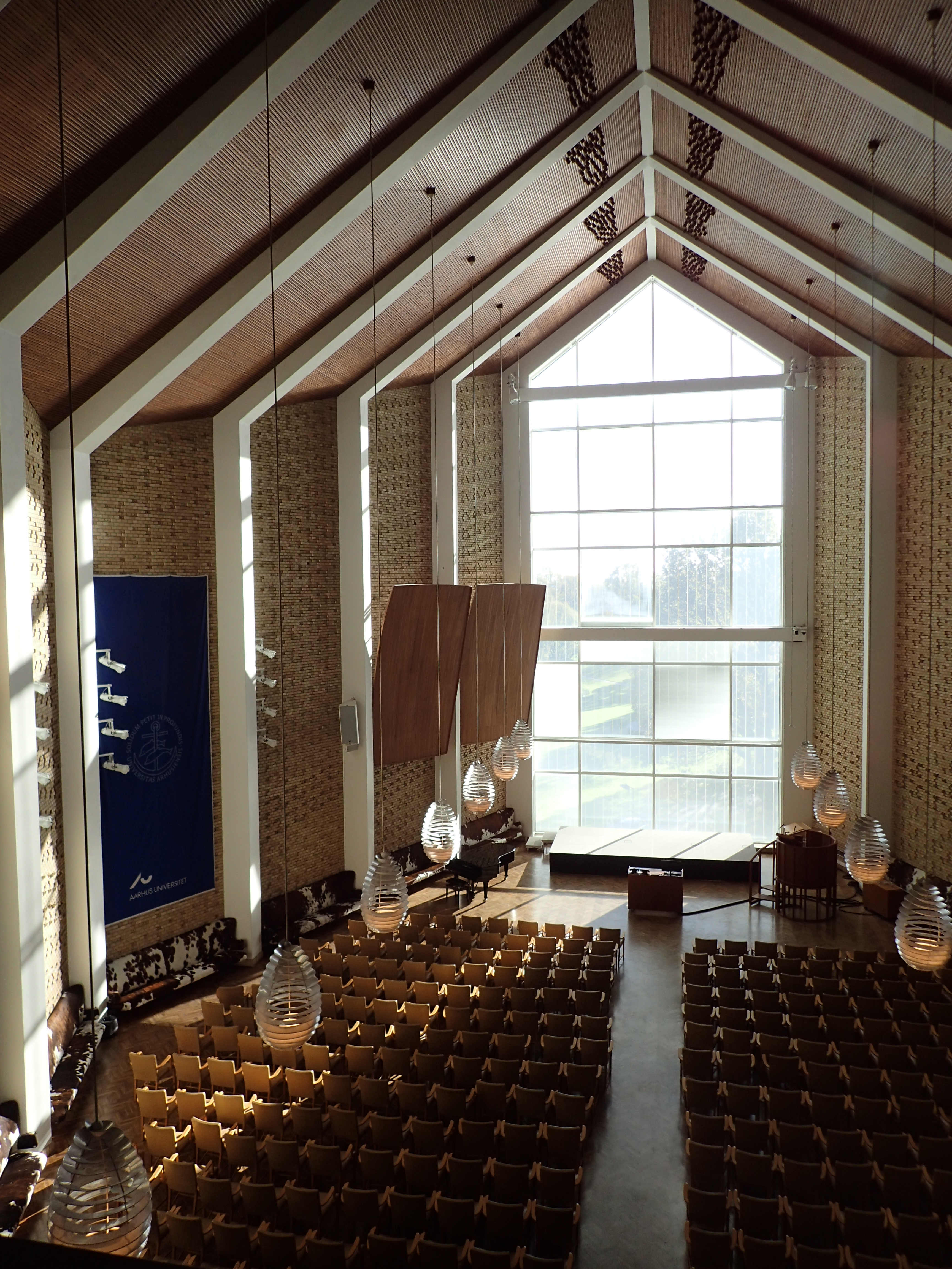 Aula-en ved Aarhus Universitet.